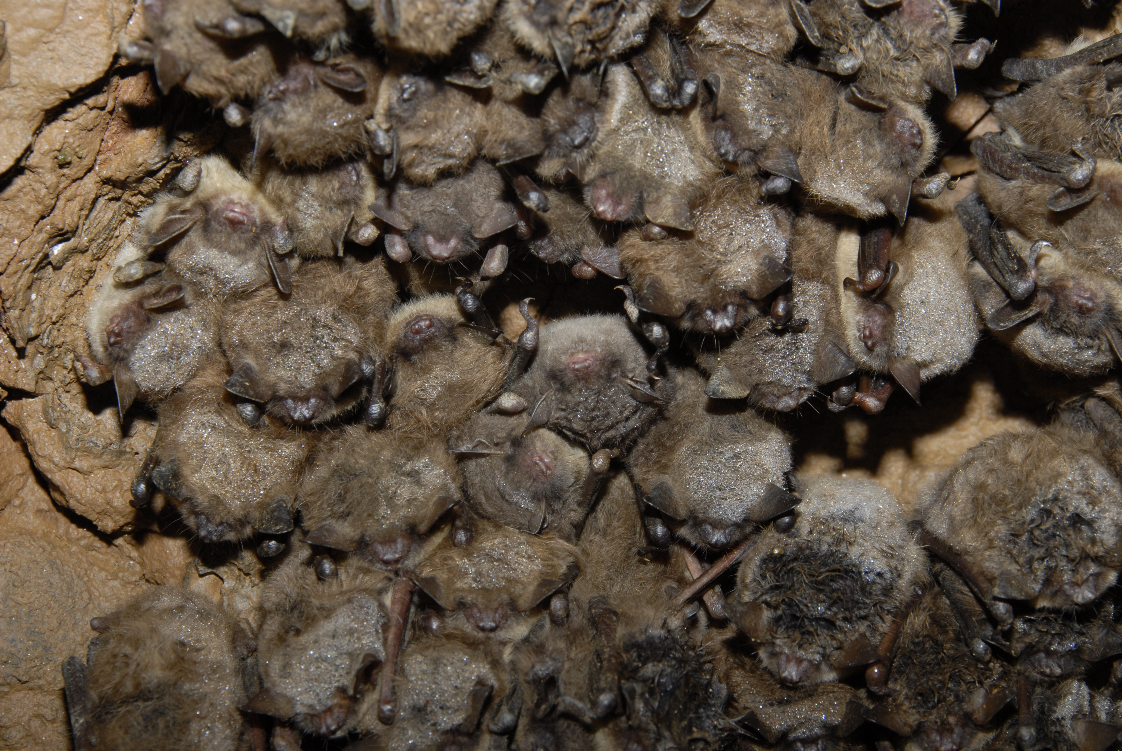 Close-up of clustered bat noses (mixed Indiana bat and little brown bat cluster). Note the presence of glistening moisture on many of the bats’ fur. This was taken before White-nose Syndrome was discovered and confirmed in an abandoned limestone mine on the Wayne National Forest in Lawrence County, Ohio Credit: Tim Krynak